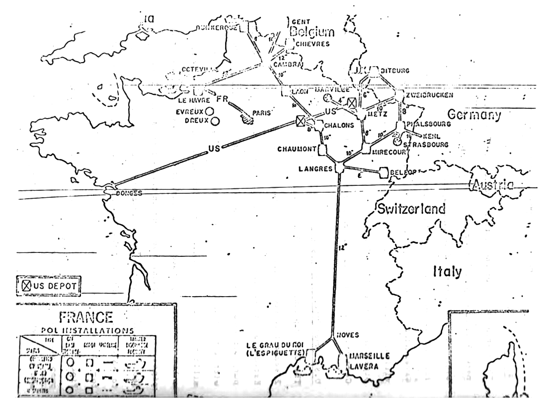 Central European Pipeline System FRANCE. The French portion of the Central European Pipeline System (CEPS) network is made up of 1,354 miles of pipeline, 17 storage depots with 4,218,000 barrels of storage capacity and 6 tanker discharge facilities. Division one and three are operated for the French Government by Trapil Company and division two is operated by military personnel. Division three includes that portion of the pipeline (30 miles) that passes through Luxembourg to Bitburg, Germany. This is the largest part of the CEPS.